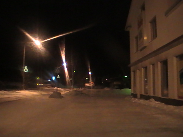 The village of Yläne at christmas view. At photo you can see the main road of Yläne village.